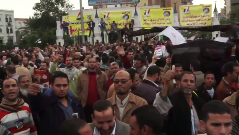 Egyptians go to the polls Saturday in the first day of voting on a controversial new constitution that critics say is too vague on important civil rights issues, and leaves the military in a position of power.